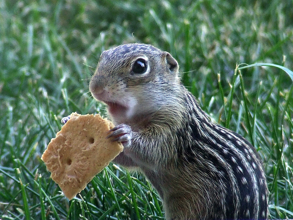 chomp